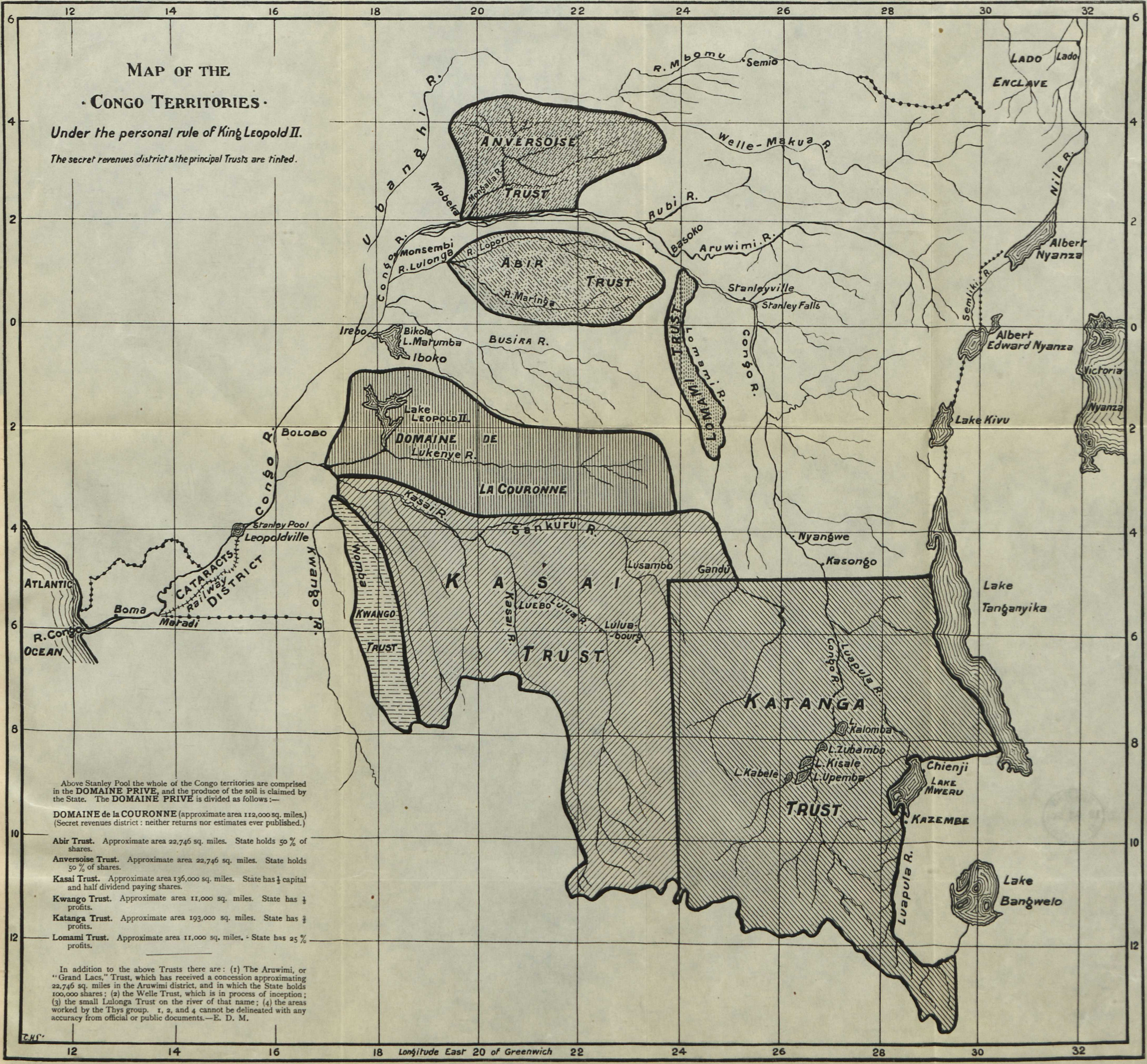 Map of the Congo Free State by E. D. Morel. It shows the concessions of different rubber companies at his time.